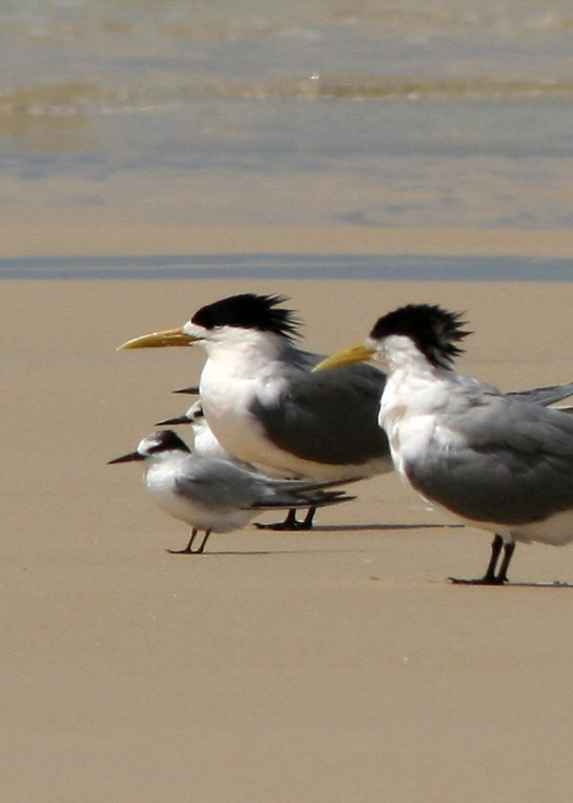 Little Tern Sternula albifrons, non-breeding plumage, with Crested Terns for size comparison